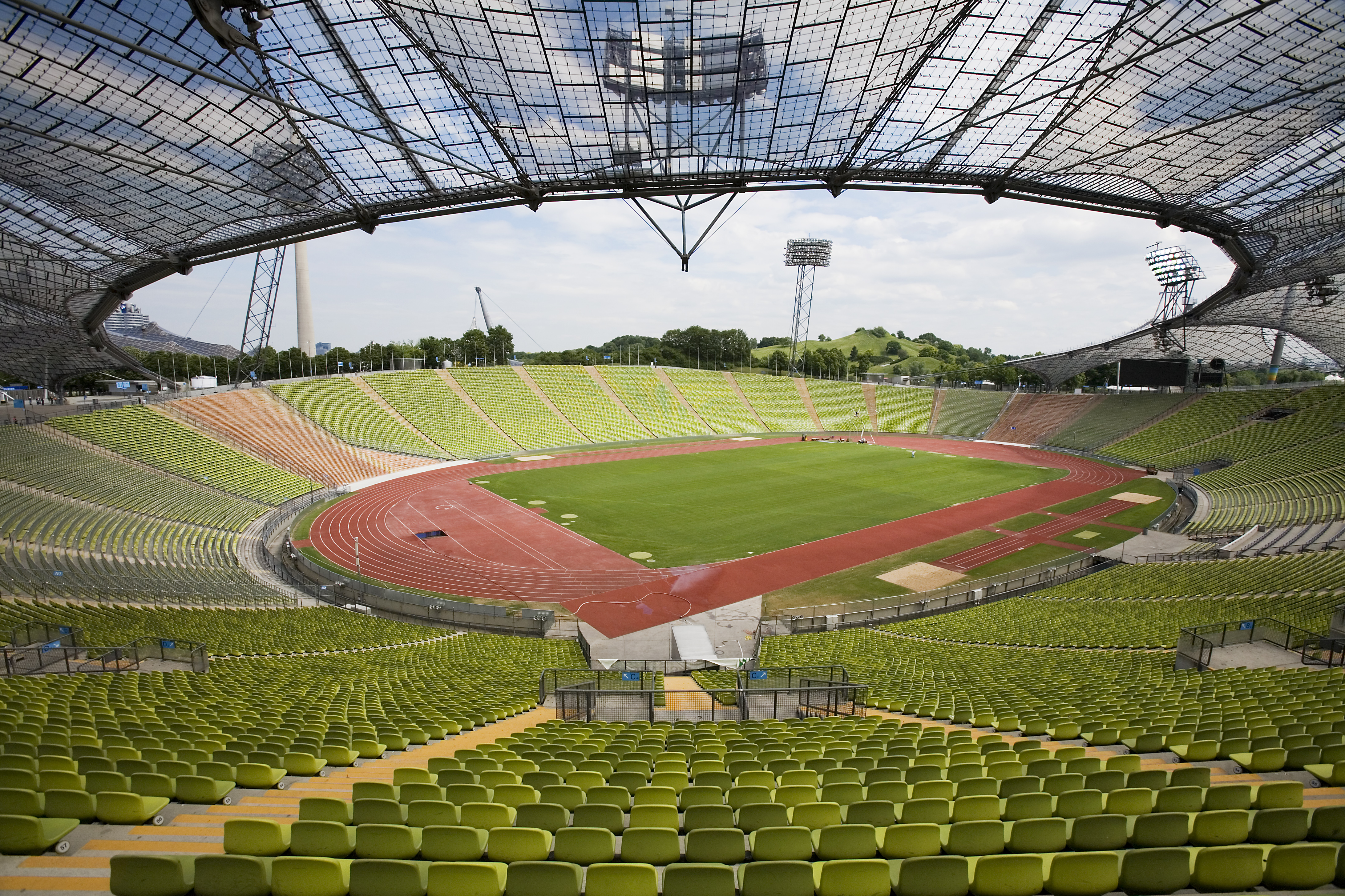 Frei Otto Tensed structures for the Munich 72 Olympic Games. Olympic Stadium and park. Munich Germany